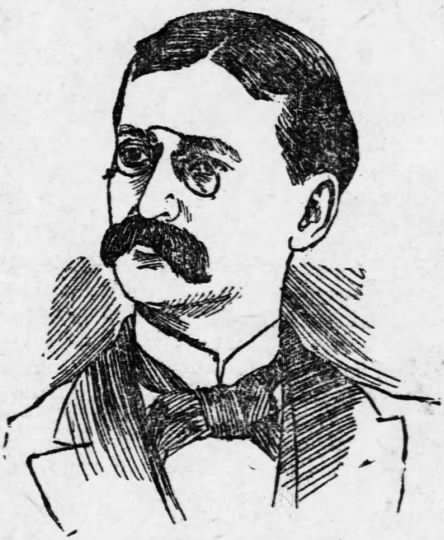 Charles F. Scott, Kansas Congressman.